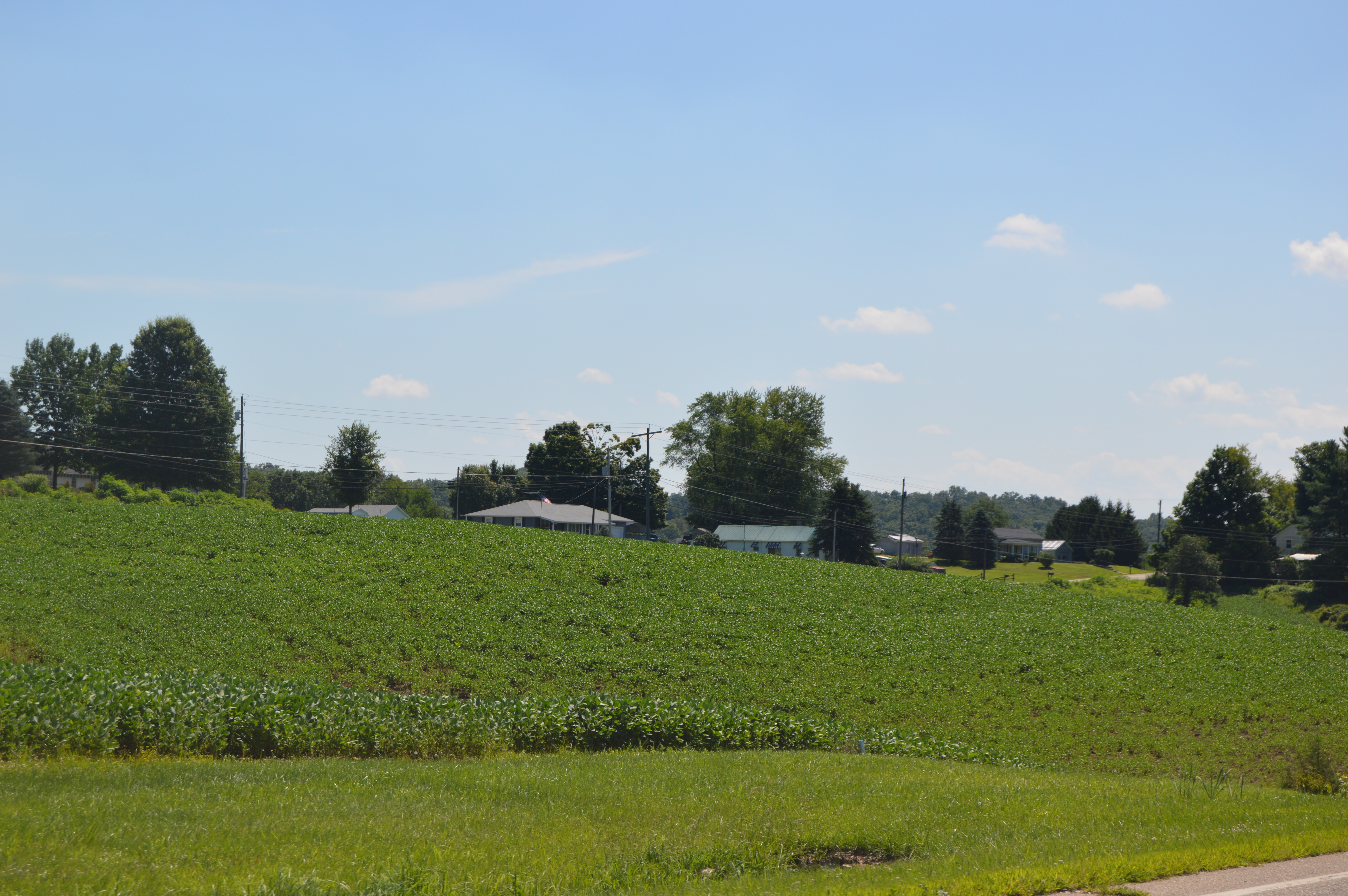 Looking eastward from State Route 160 northwest of Kerr in Springfield Township, Gallia County, Ohio, United States. The houses in the distance lie along Skidmore Road.